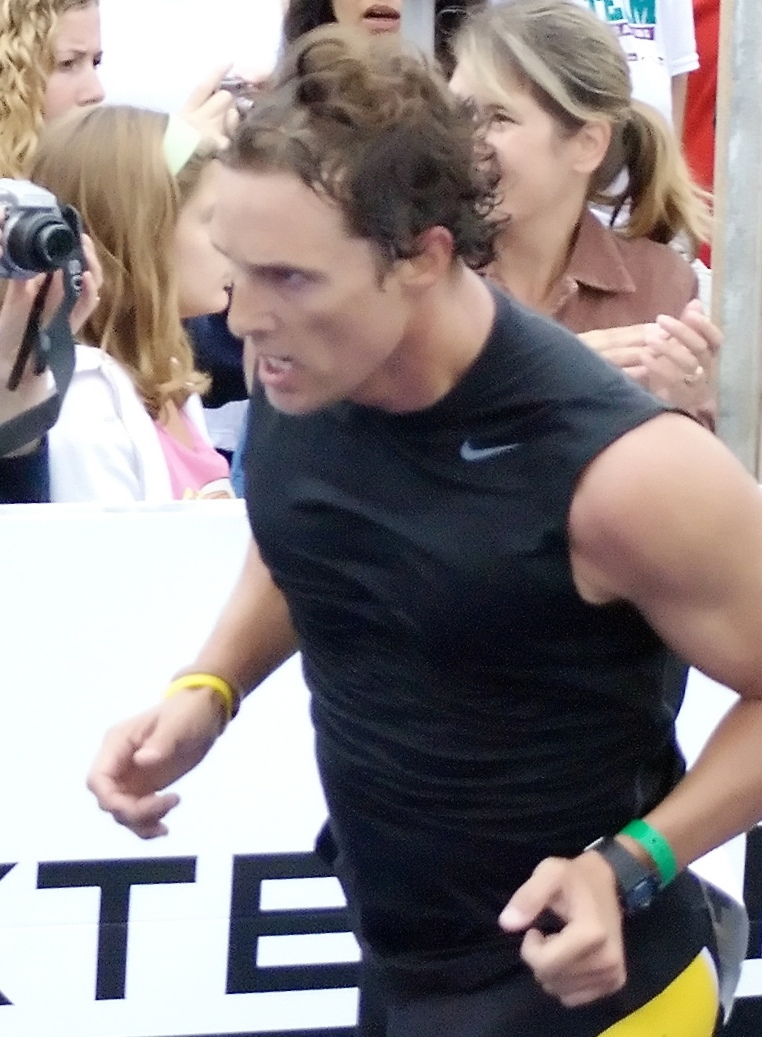 Matthew McConaughey approaching the finish line with determination. He finished fifth in the Male Celebrity Elite class, posting a time of 01:43:48.3.[1]